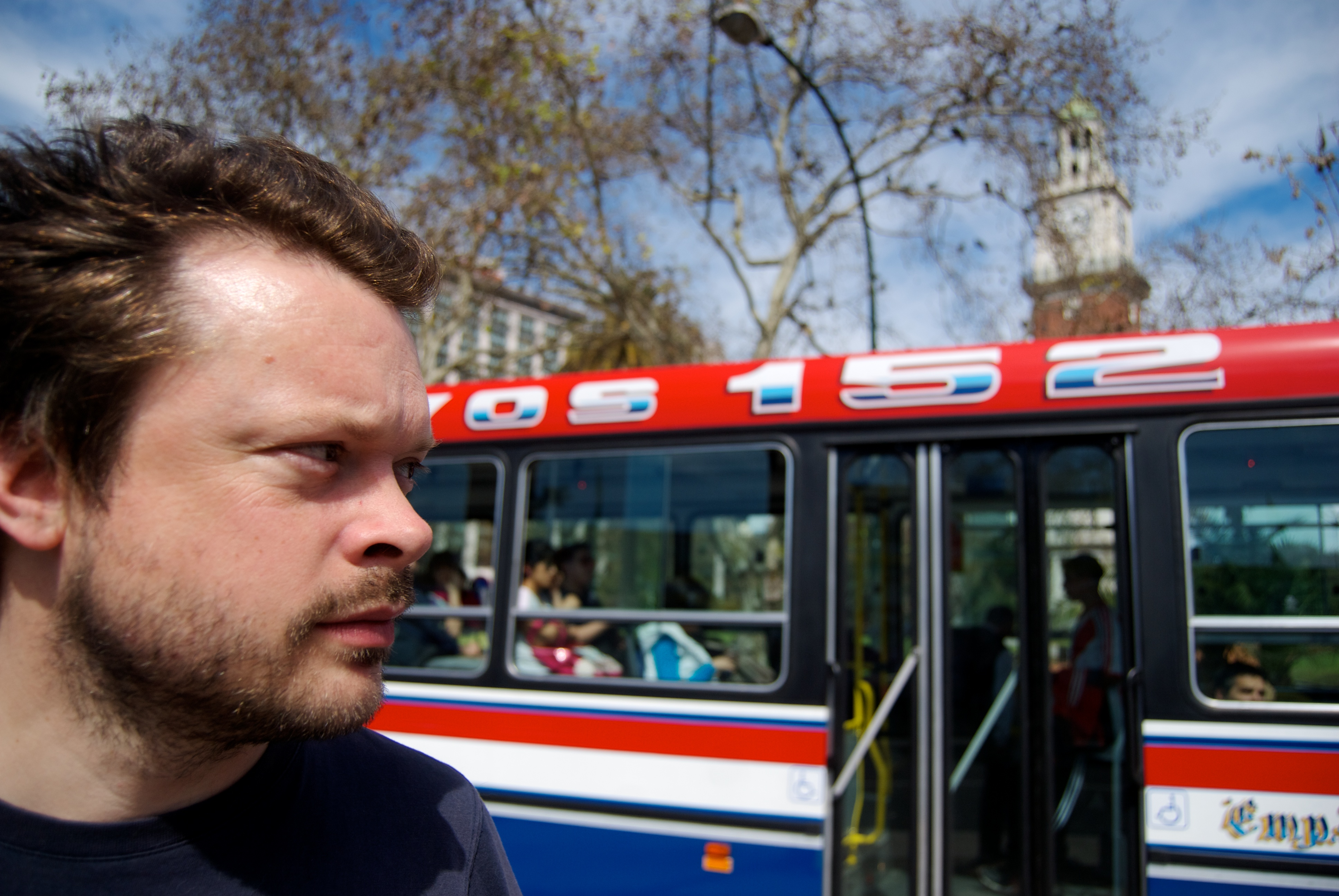 Daniel Tunnard awaits the 152 bus in Plaza San Martin, Retiro Buenos Aires, Argentina